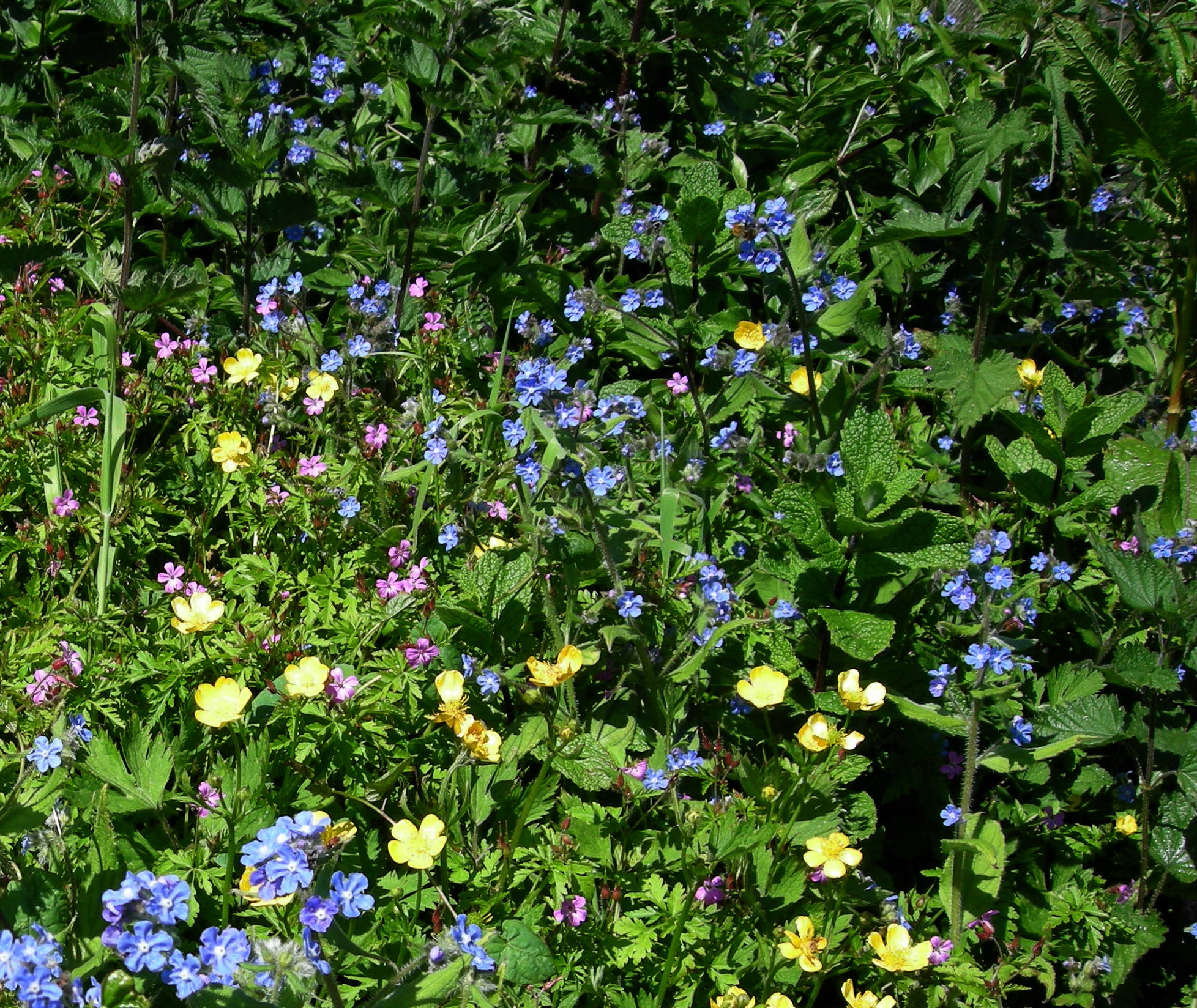 Wild flowers (green alkanet; herb robert, buttercup) in front garden of Bracken Hall Countryside Centre and Museum, Baildon, West Yorkshire, England. (Pentaglottis sempervirens; Geranium robertianum; Ranunculus repens)